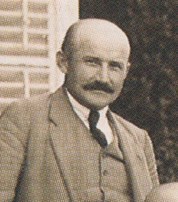 József Takács, member of the Peidl Cabinet